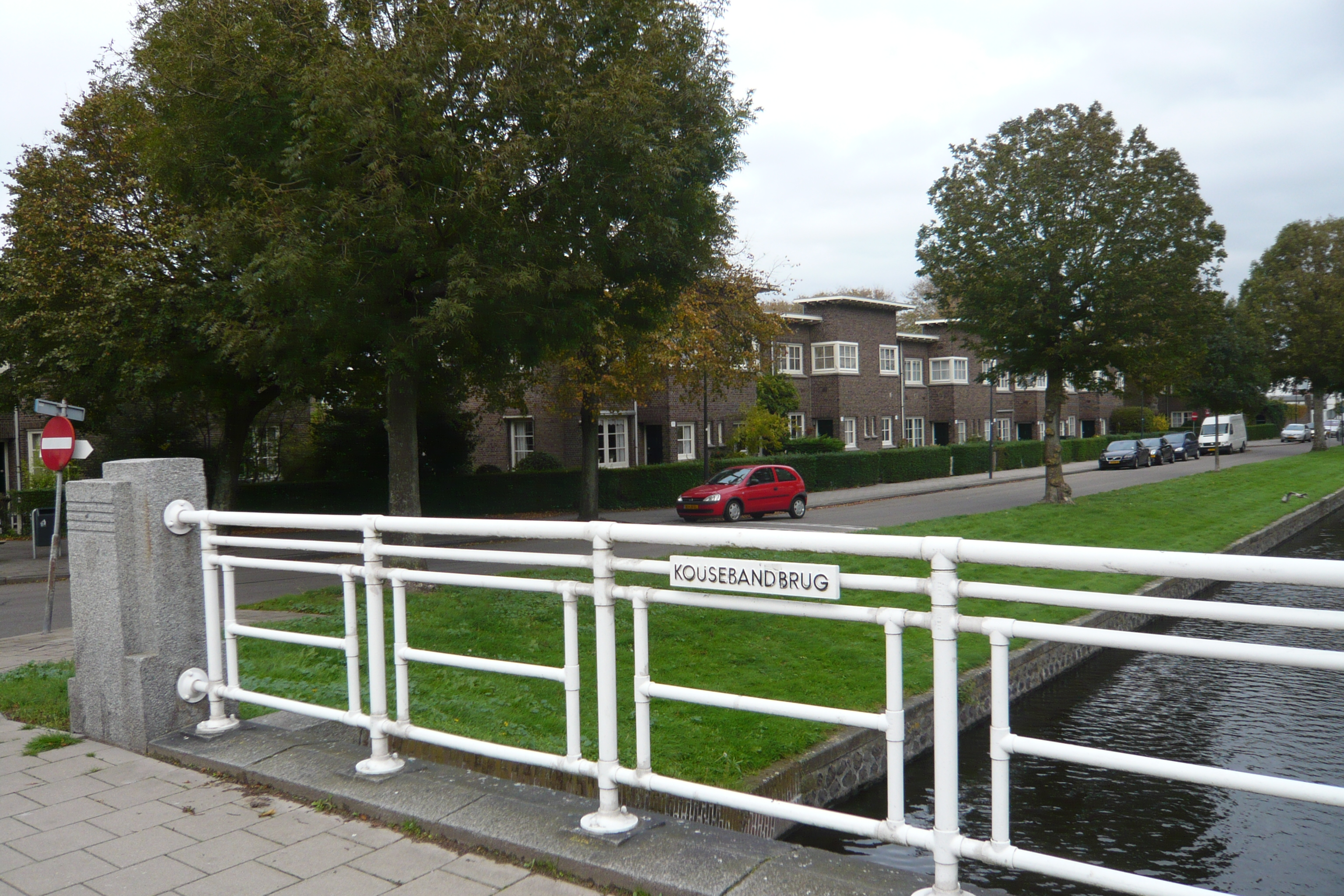 Brouwersvaart bridge "Kouseband" with a view of the houses on the Brouwerskade.